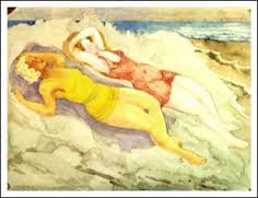 Painting of sunbathers on the beach on the Danish island of Fanø.